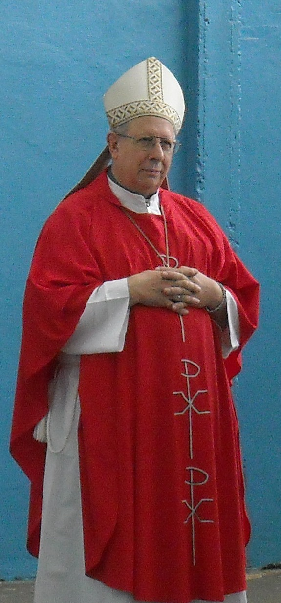 Monsignior William Rodríguez-Melgarejo